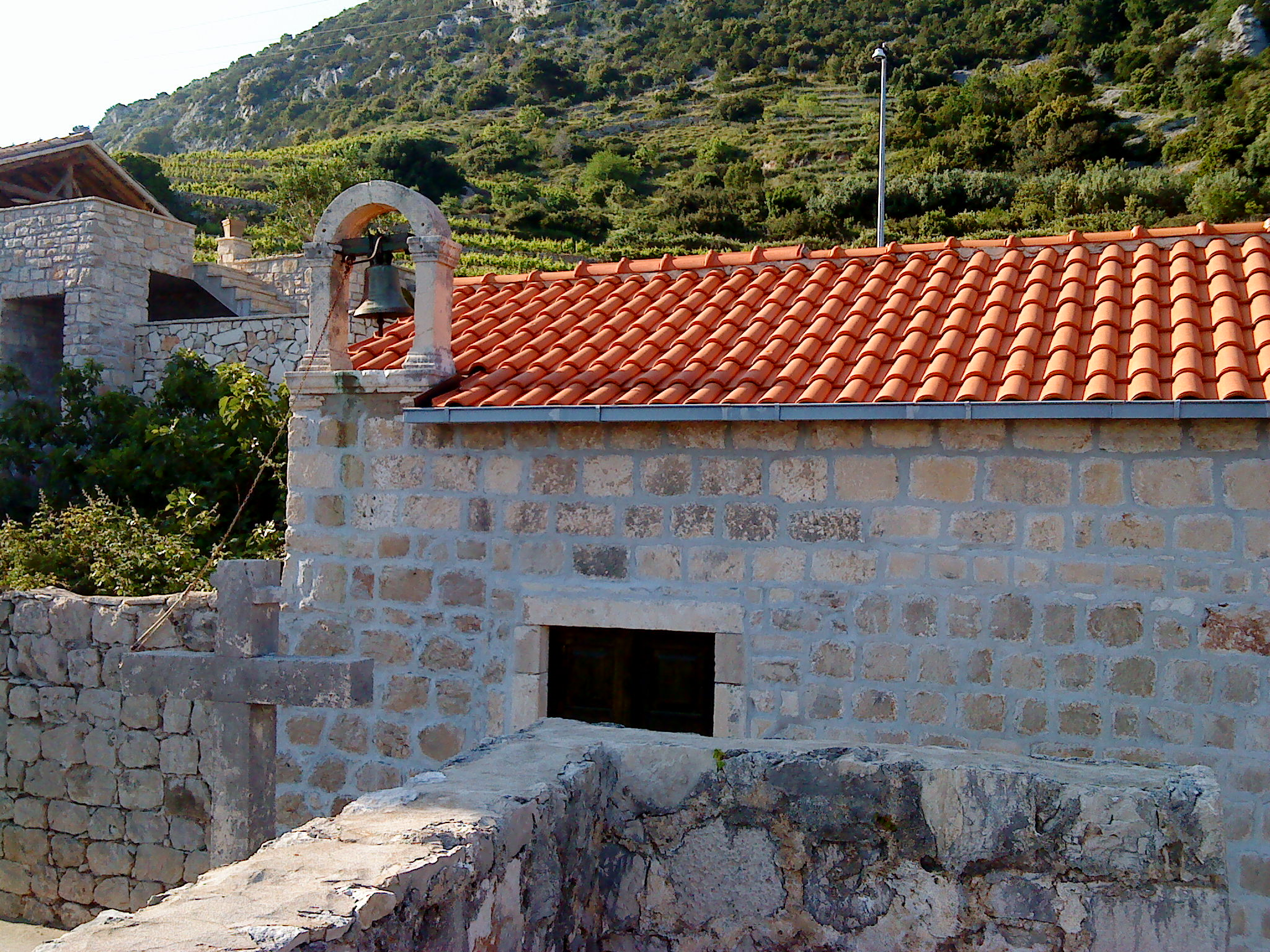 Roman Catholic chapel in Podobuče